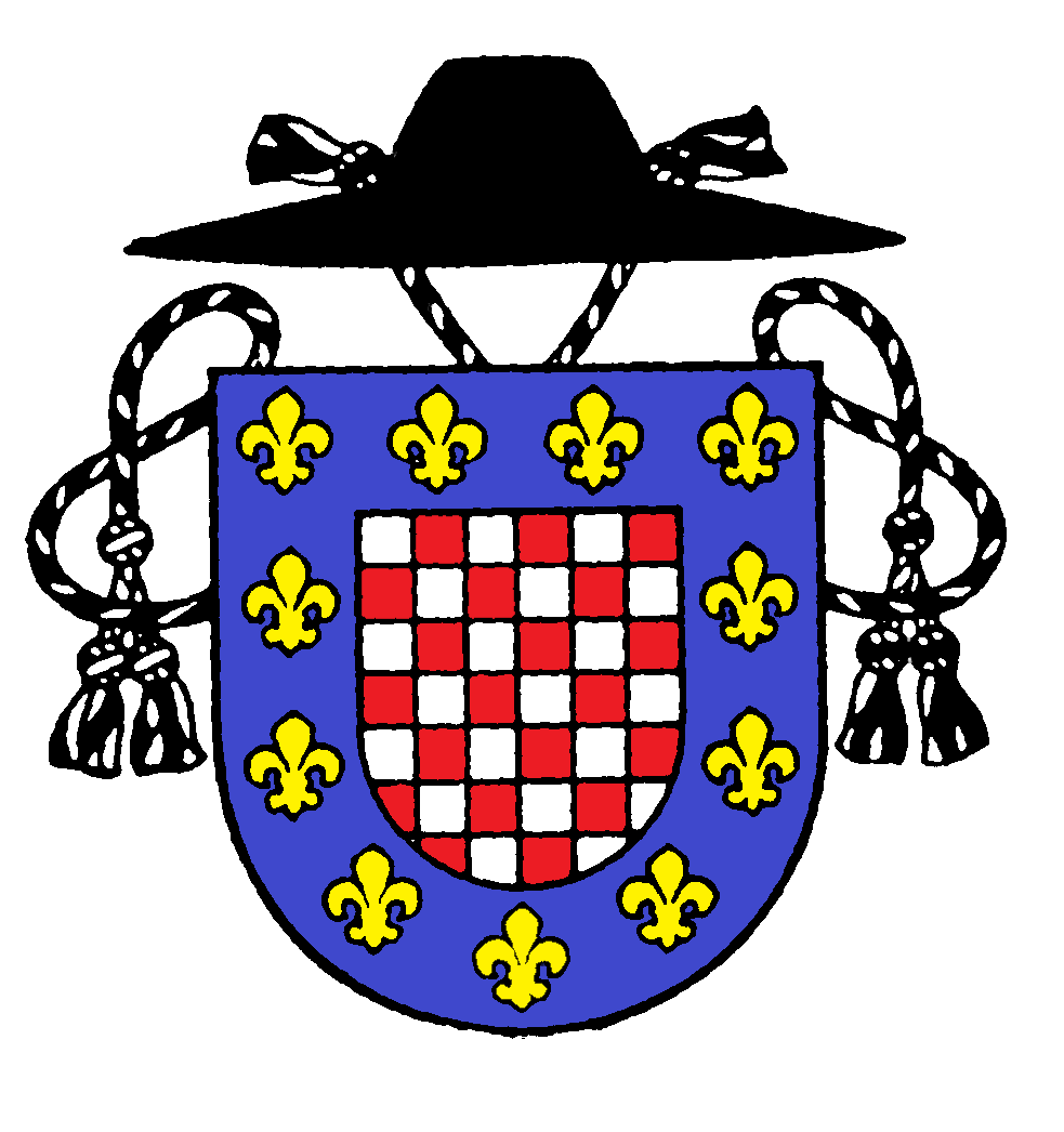 Znak děkanátu Hranice na Moravě